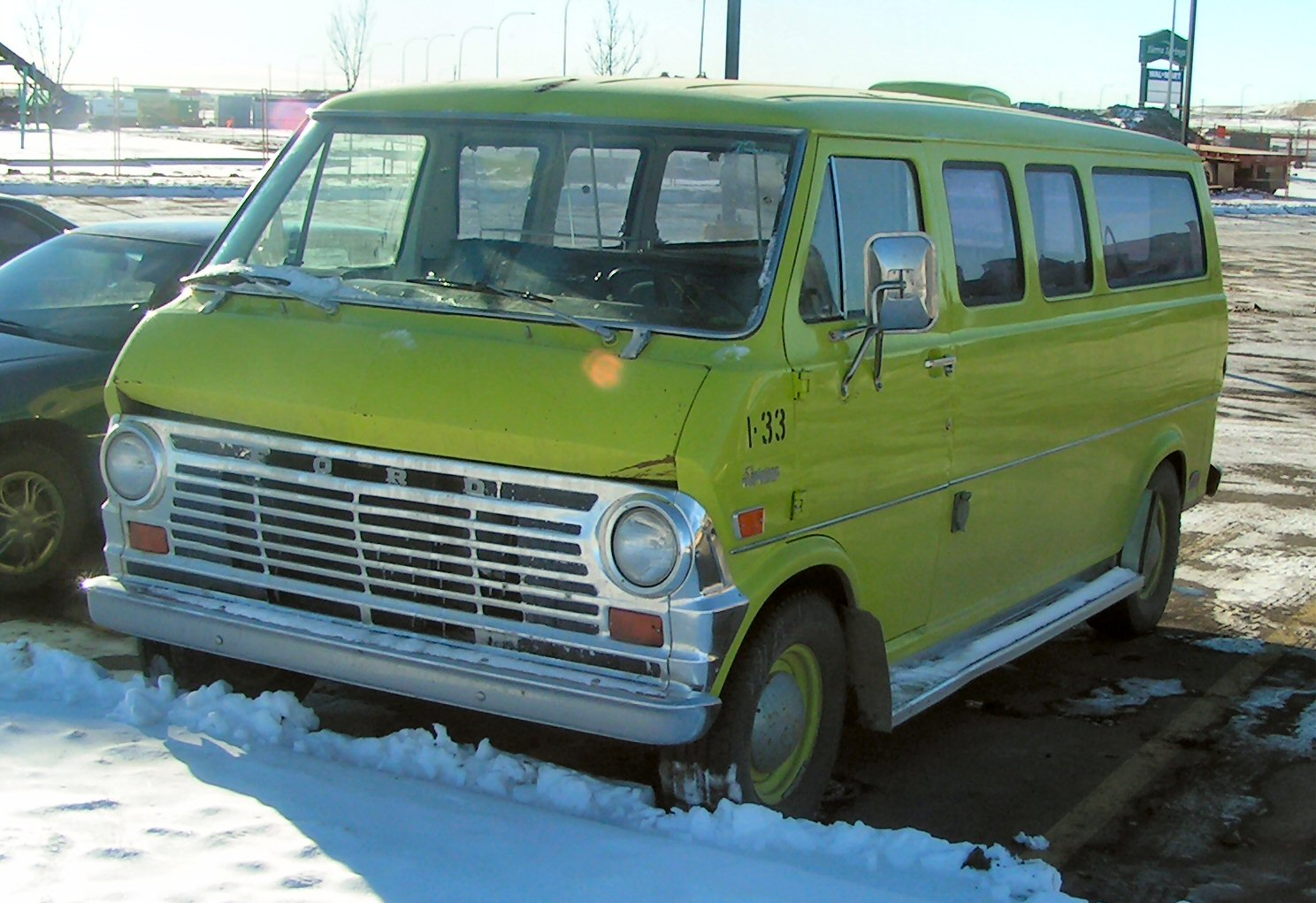 Second generation (1969-1970) Ford Econoline Van.